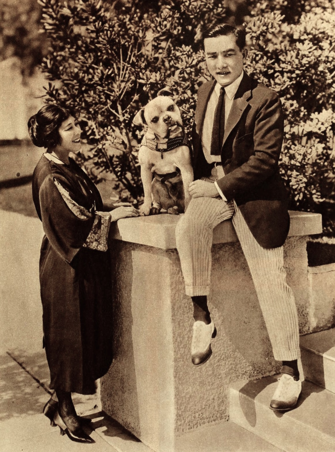 Sessue Hayakawa and his wife Tsuru Aoki and the dog "Dynomite", on page 51 of the January 1922 Photoplay.